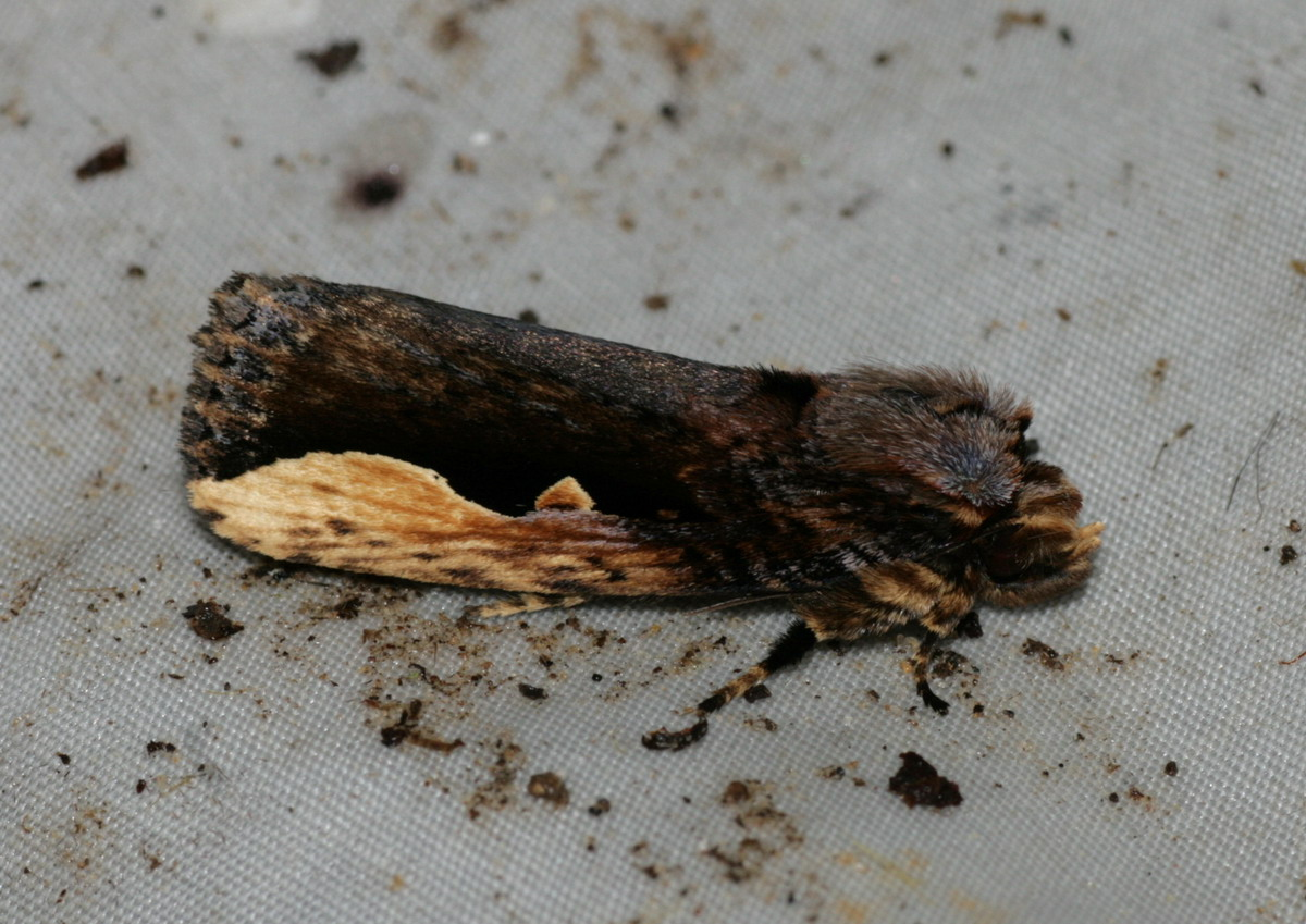 Borneo, Crocker Range National Park, April 2009.